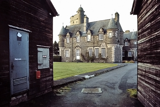 Peel House in the days of Peel Hospital